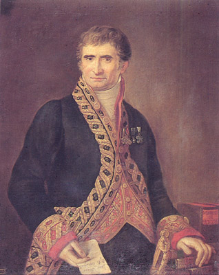 Spanish Politician José Canga Argüelles (1770-1843)